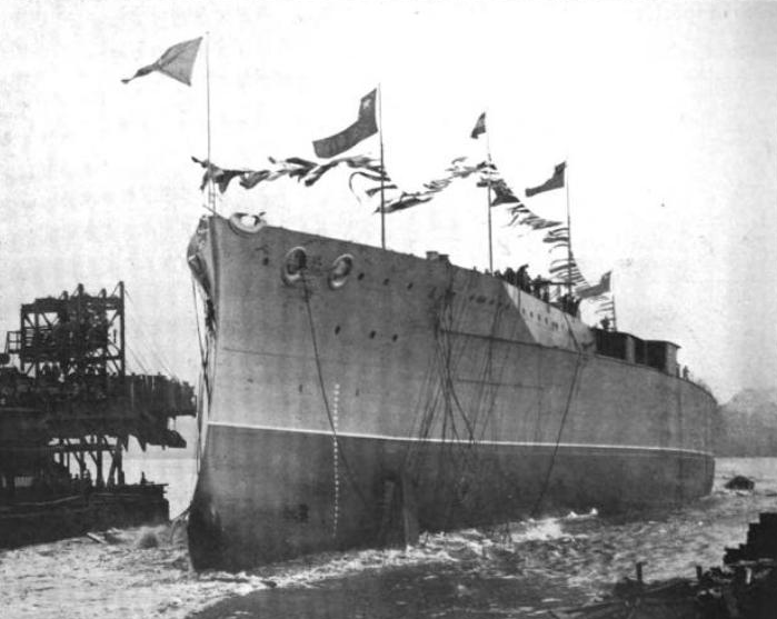 Almirante Latorre shortly after being launched.